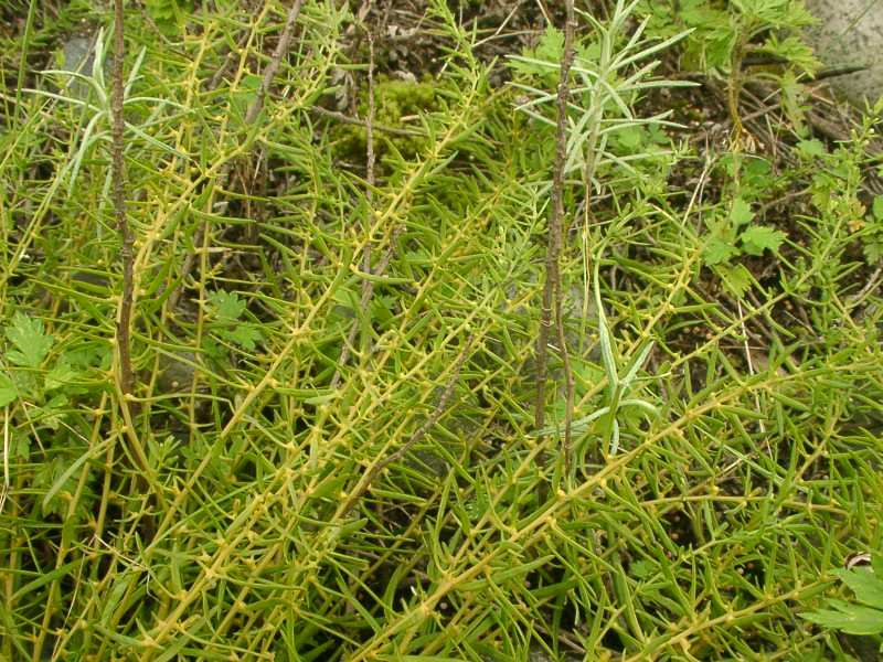 Thesium chinense at Odawara-city, Japan.